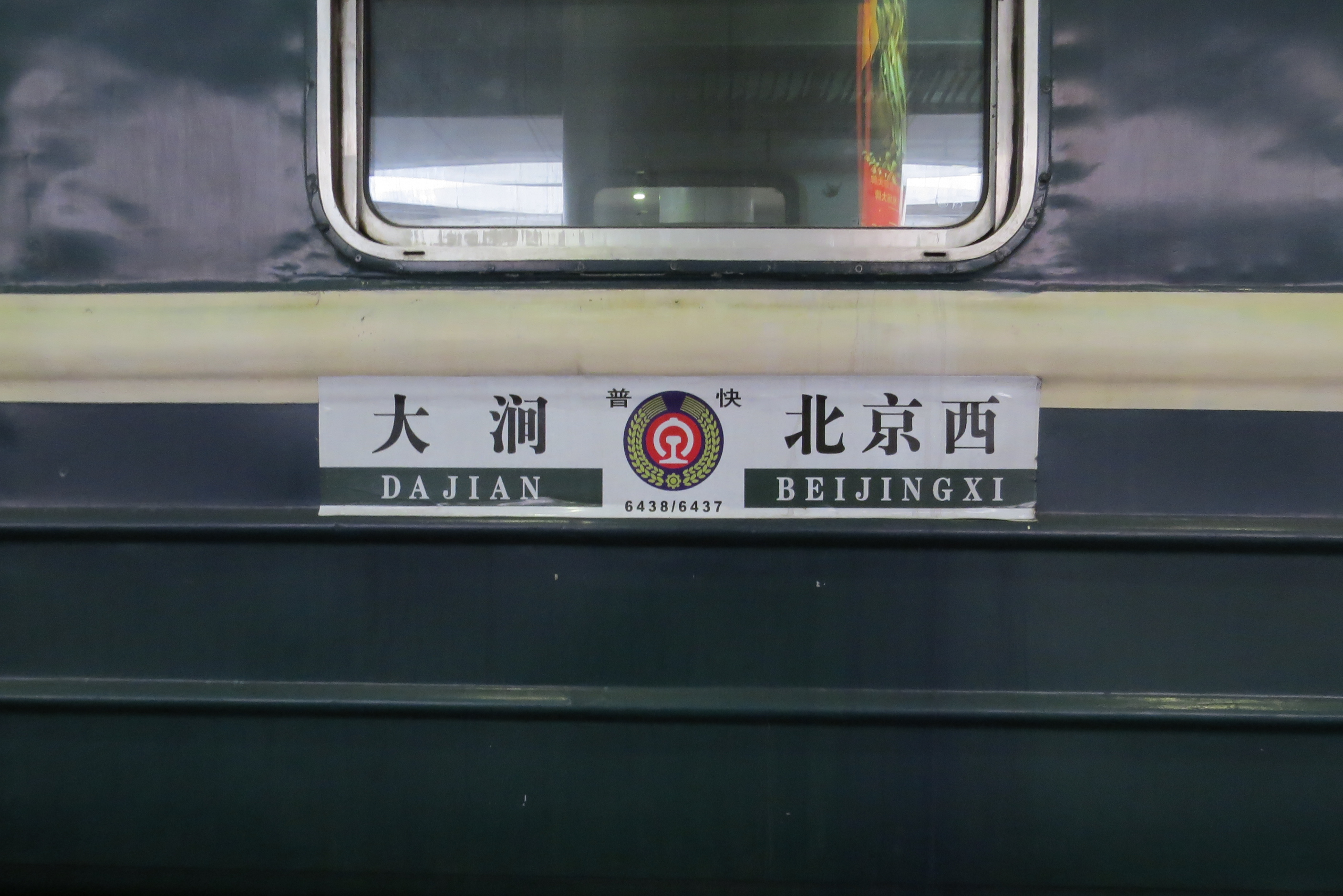 Beijing 6437 Dajian 6438 Beijing. It is said that this train would append some unexpected carriages, like QZ25Ts. Ex:7197/7198.